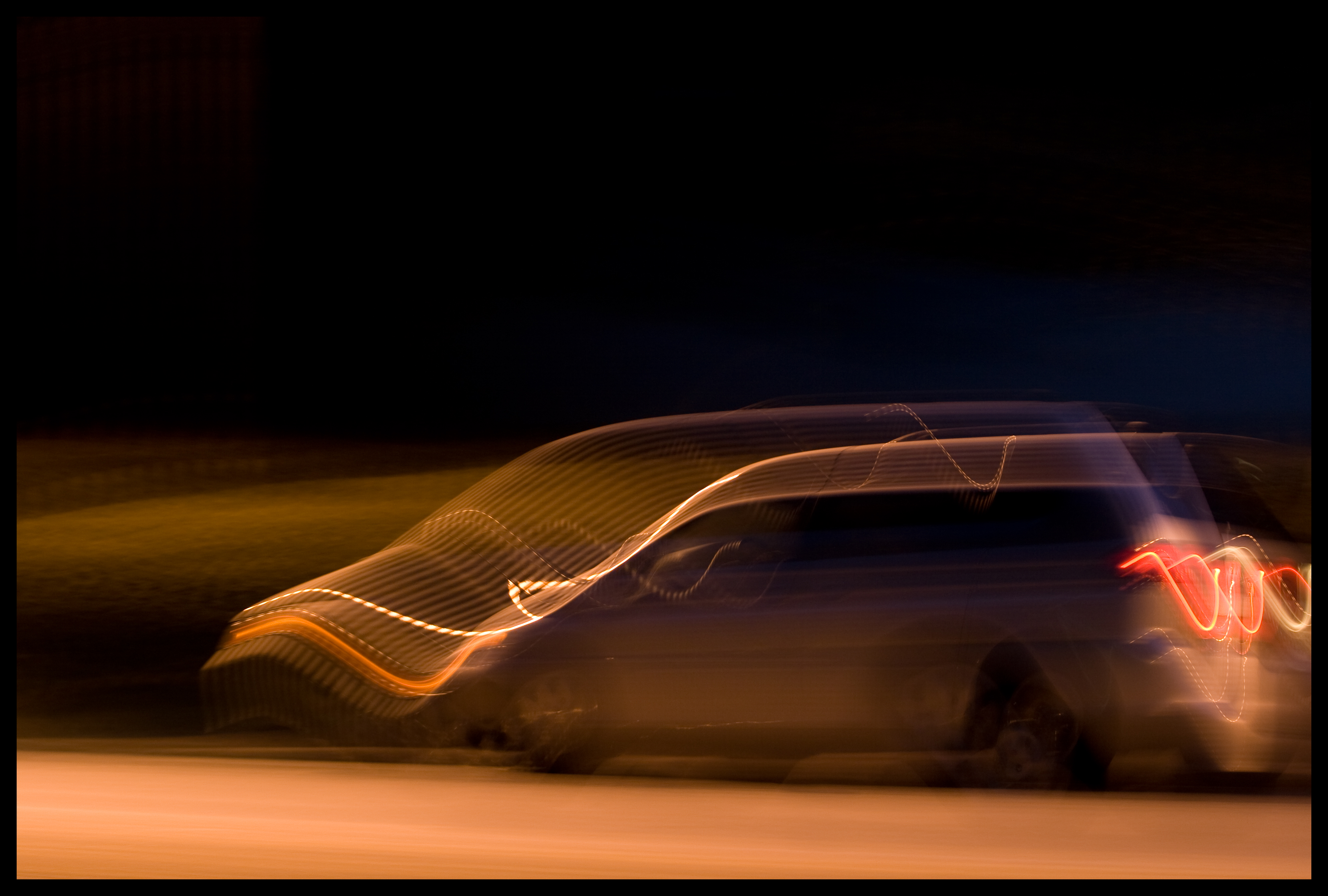 I have no idea what happened when I pushed the shutter here... but I like it...